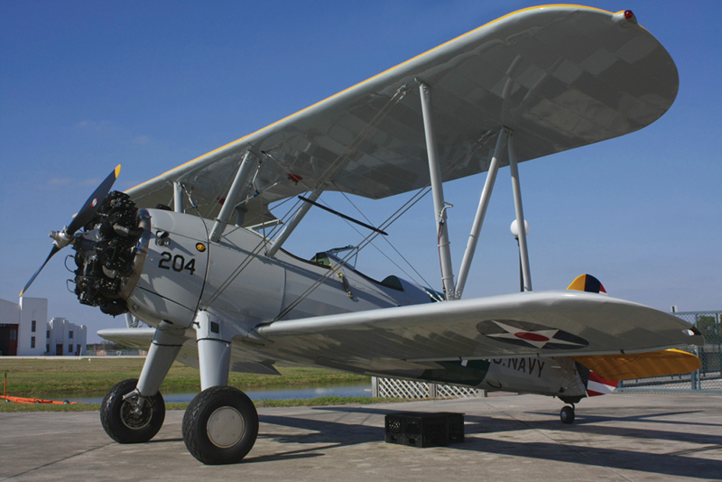 Boeing Stearman PT-17 biplane, Fantasy of Flight, Polk City, Florida, USA